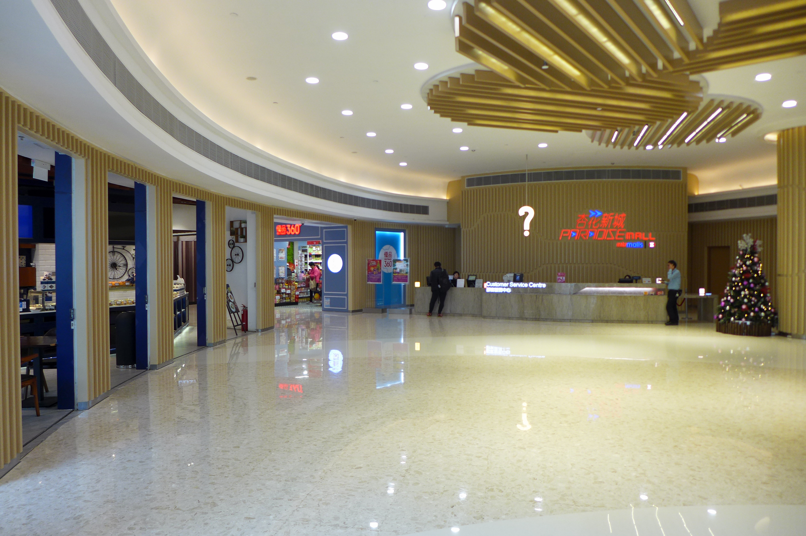 Paradise Mall GF After renovation